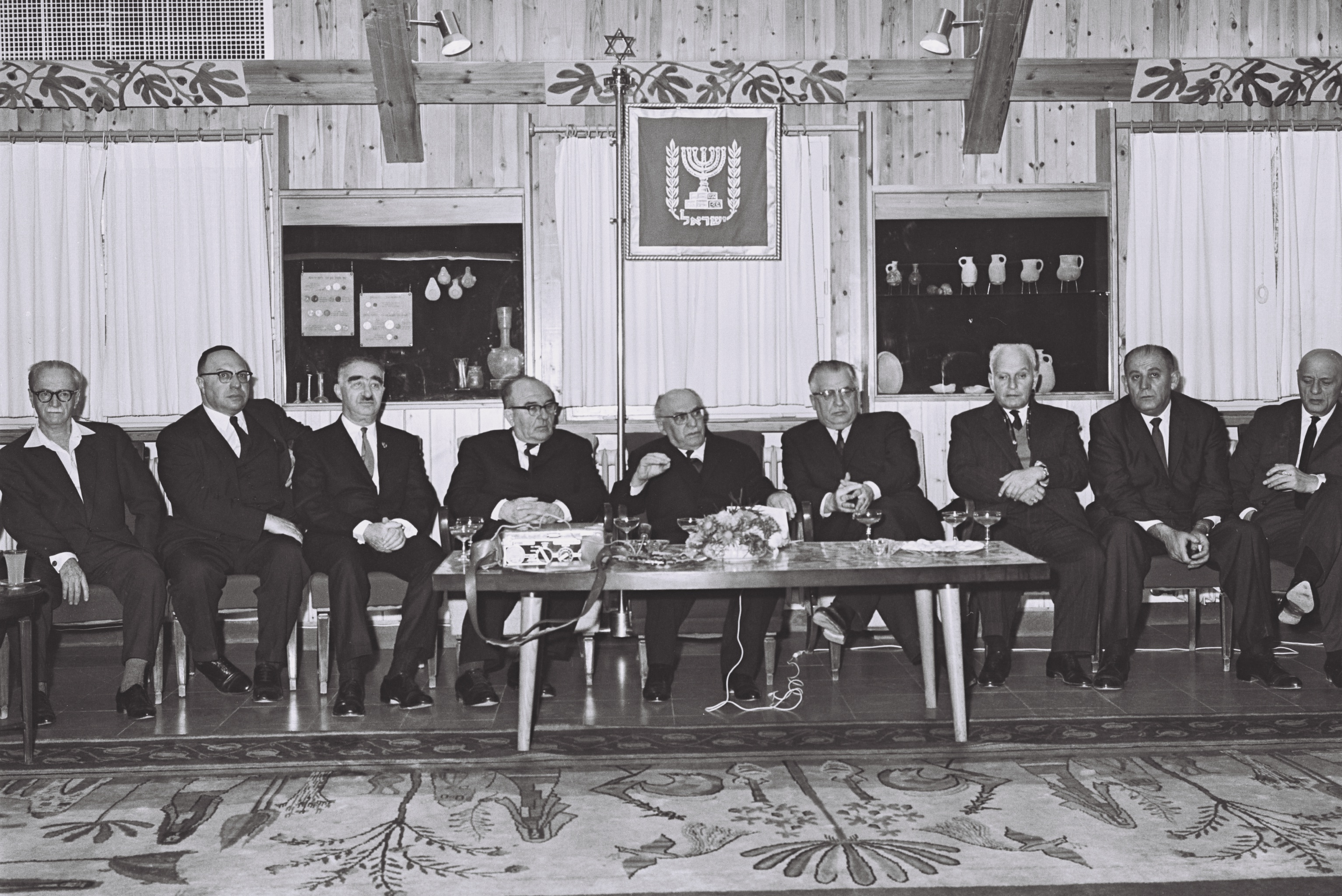 PRESIDENT SHAZAR WITH MEMBERS OF THE NEW ESHKOL CABINET AFTER THE RE-FORMATION OF THE GOVERNMENT AT BEIT HANASSI IN JERUSALEM. MORE DETAILS IN HEBREW CAPTION.